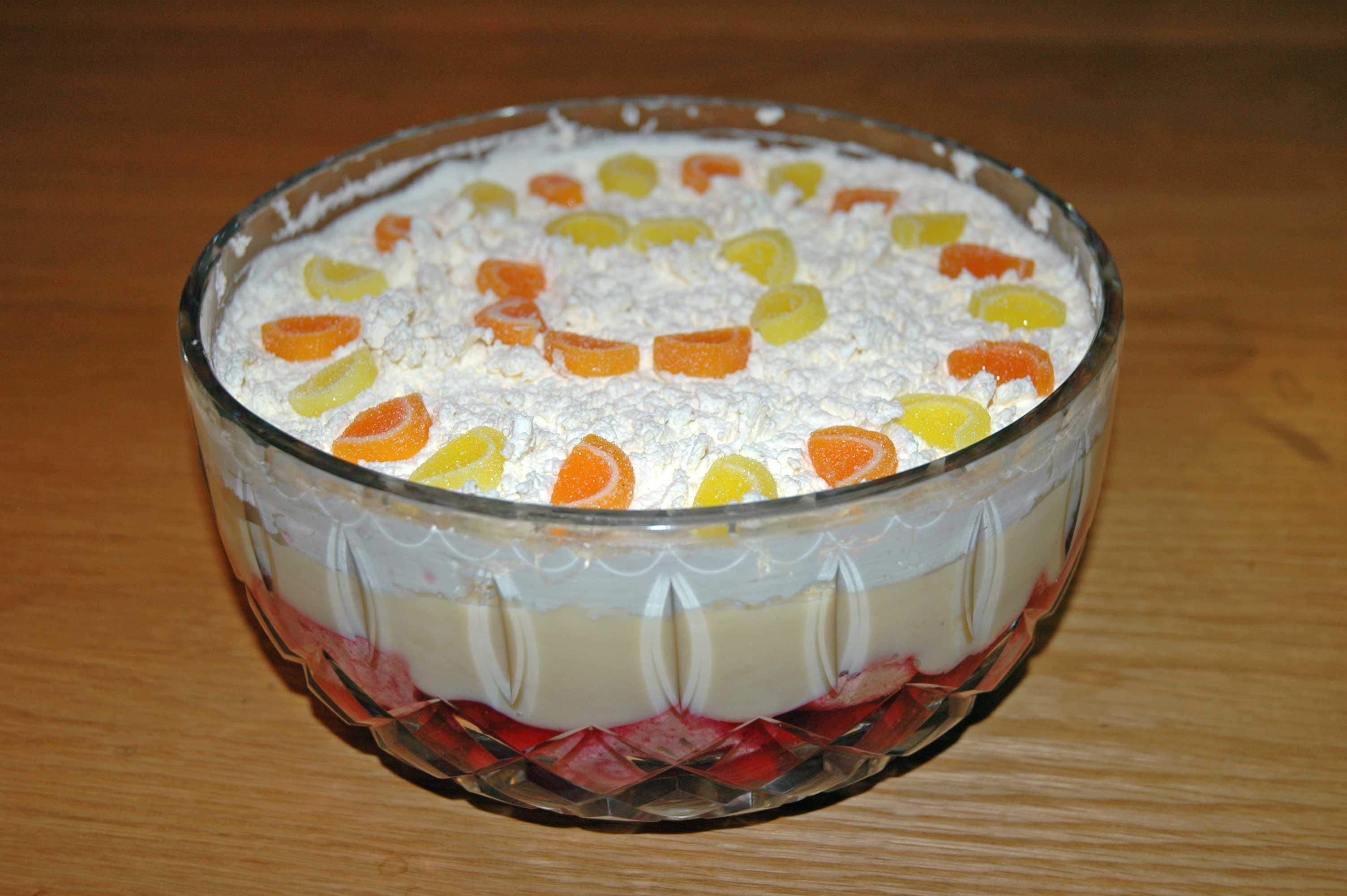 I made this raspberry sherry trifle and took this photo of it.